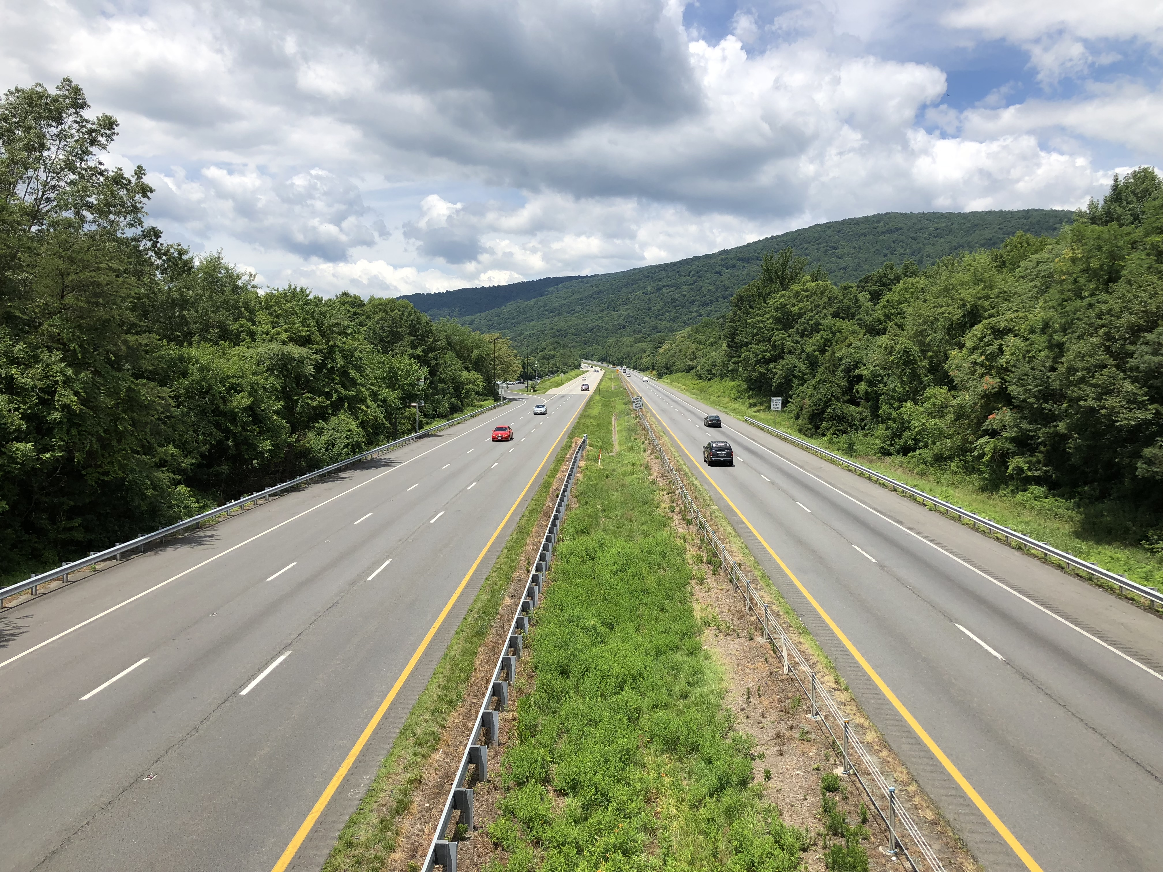 View west along Interstate 64 from the overpass for Virginia State Route 691 (Greenwood Road) in Greenwood, Albemarle County, Virginia